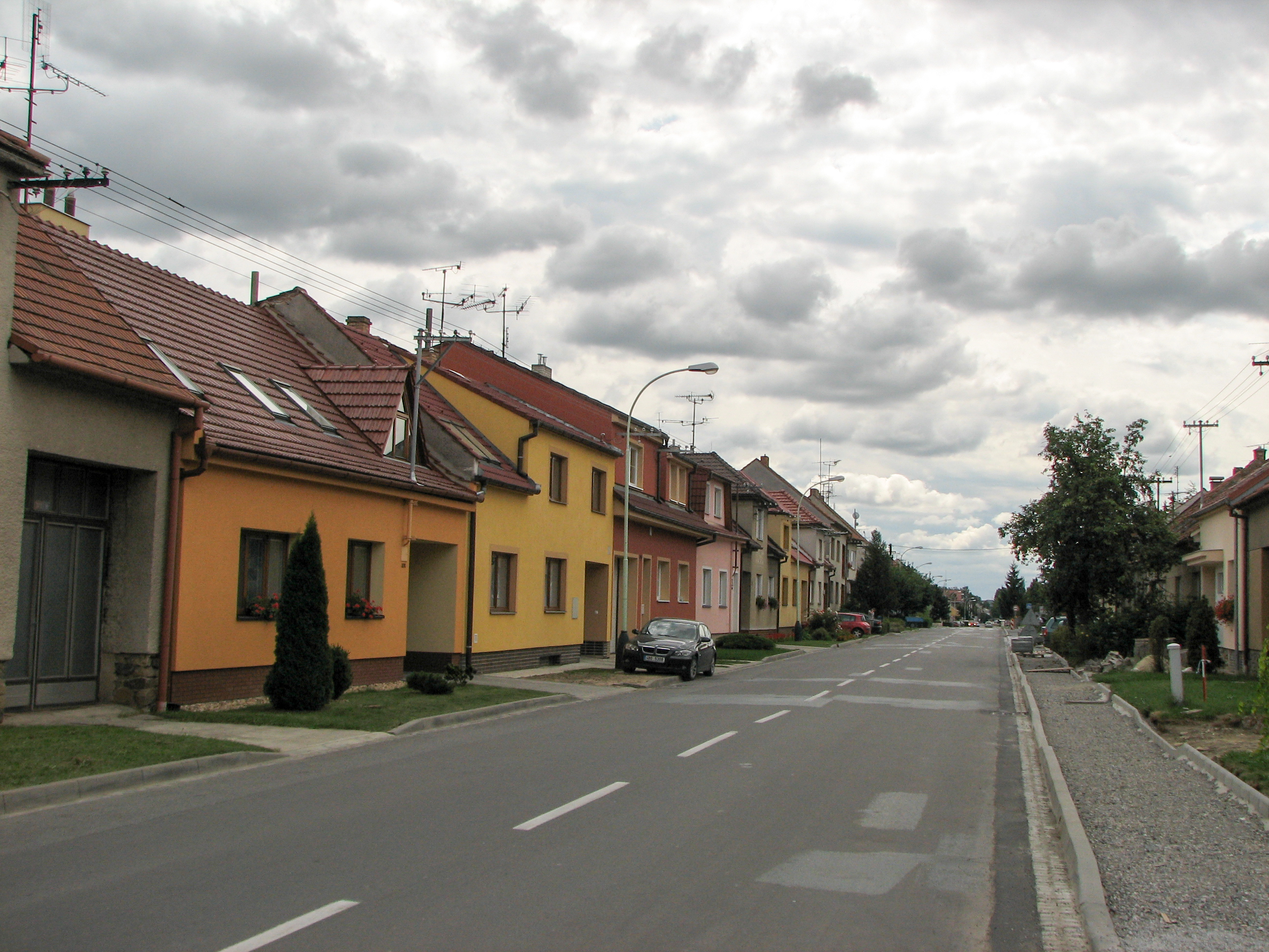 Boršov (Kyjov) - Boršovská street